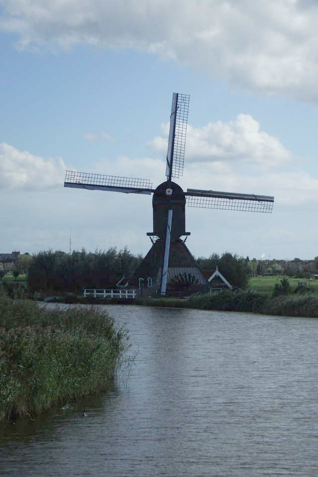 One of the windmills of Kinderdijk, the Netherlands.